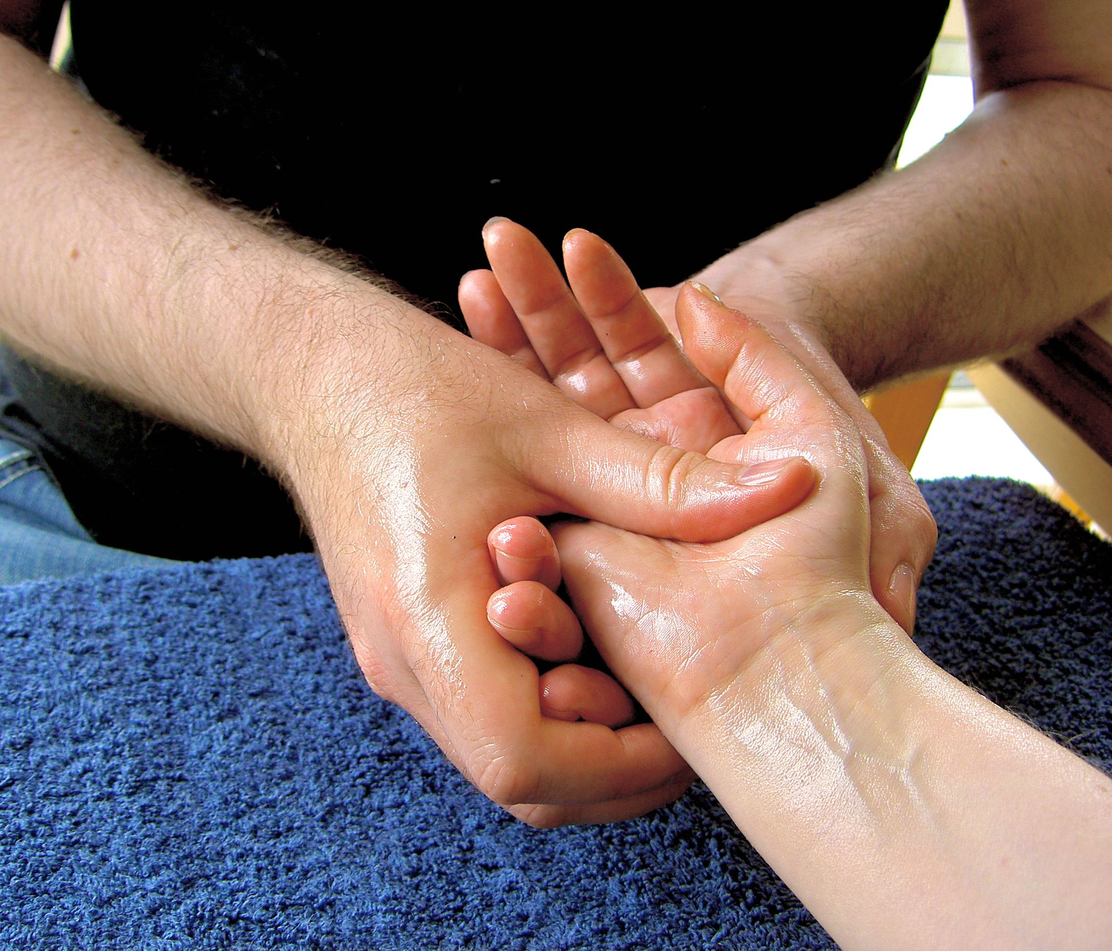 Photograph of a man massaging a woman's hand with her palm facing upwards, using baby oil as a lubricant. The massaged hand is mine and the massaging hands are my partner's. I own this image and all rights to it, and I am pleased to share it under the Creative Commons Attribution Share-Alike Unported 3.0 license.